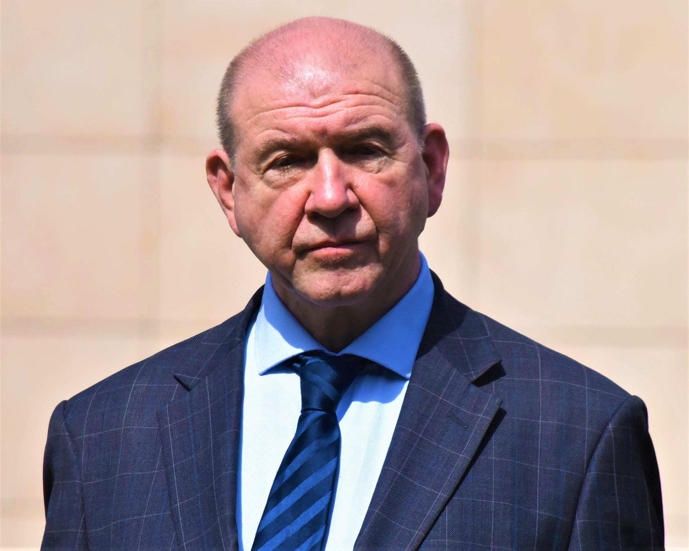 Marián Hošek, Czech politician